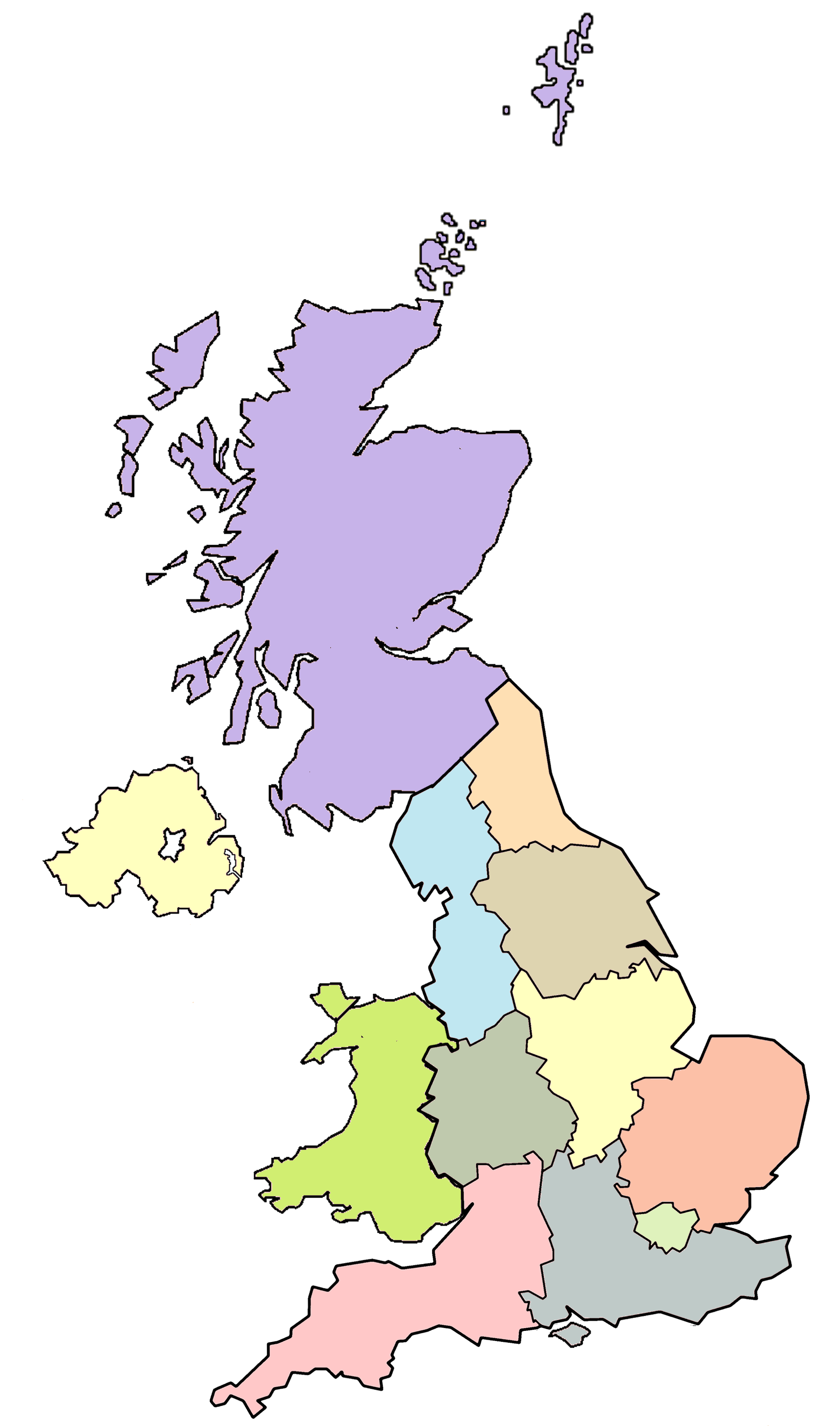 NUTS 1 regions of the United Kingdom